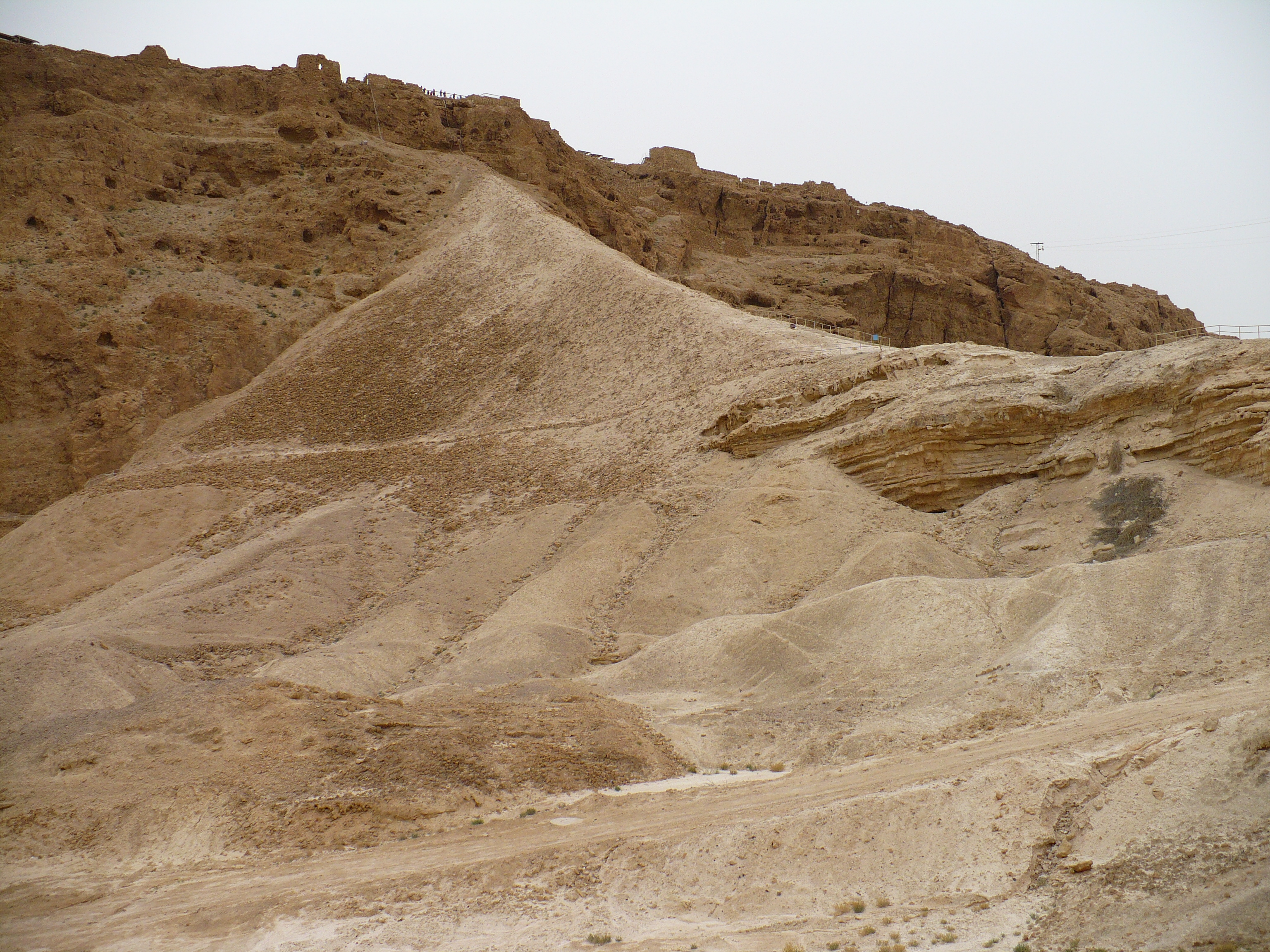 Masada siege ramp